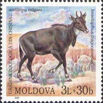 Stamp of Moldova